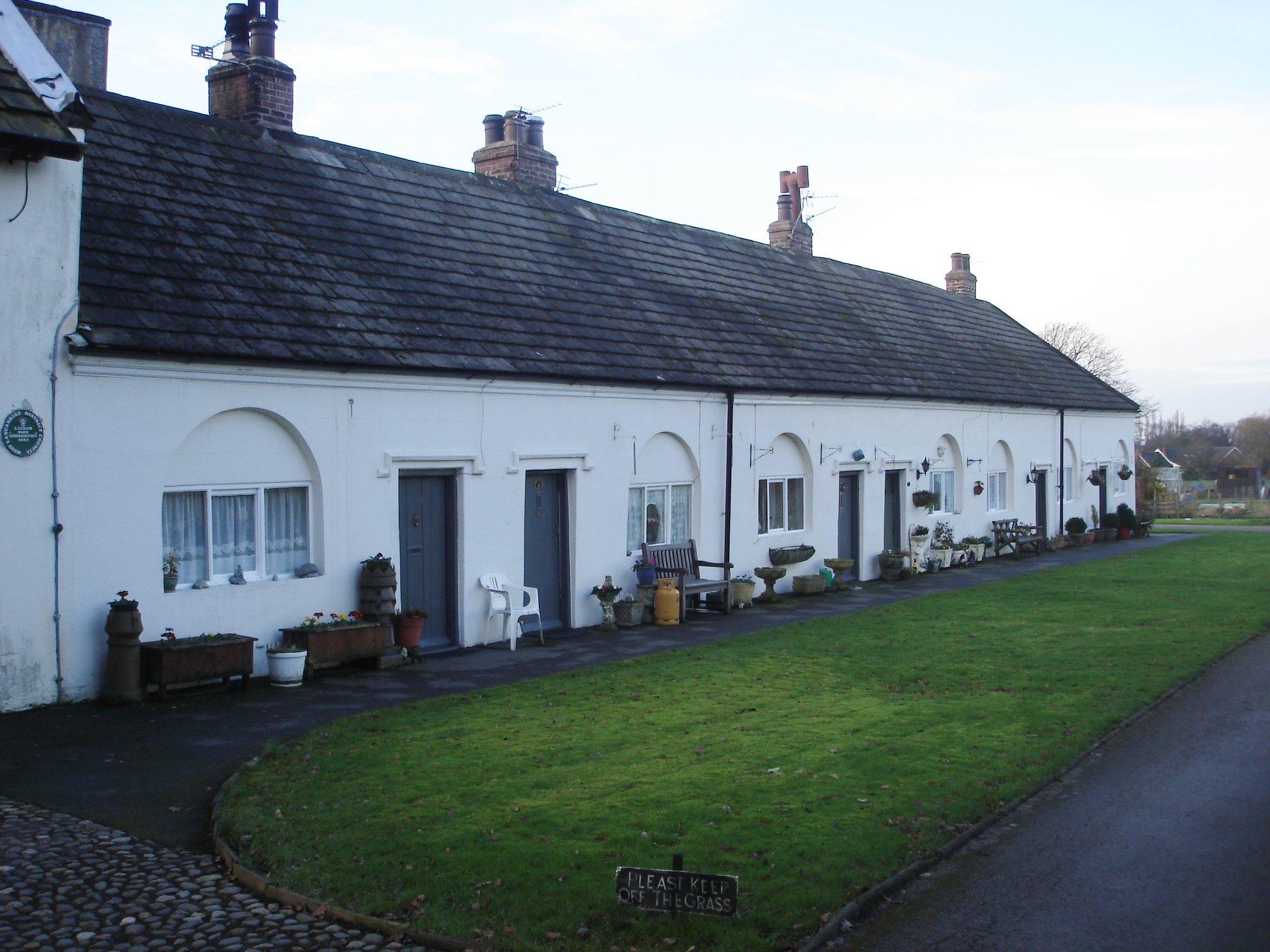 Almhouses in Lathom, Lancashire near site of Lathom House